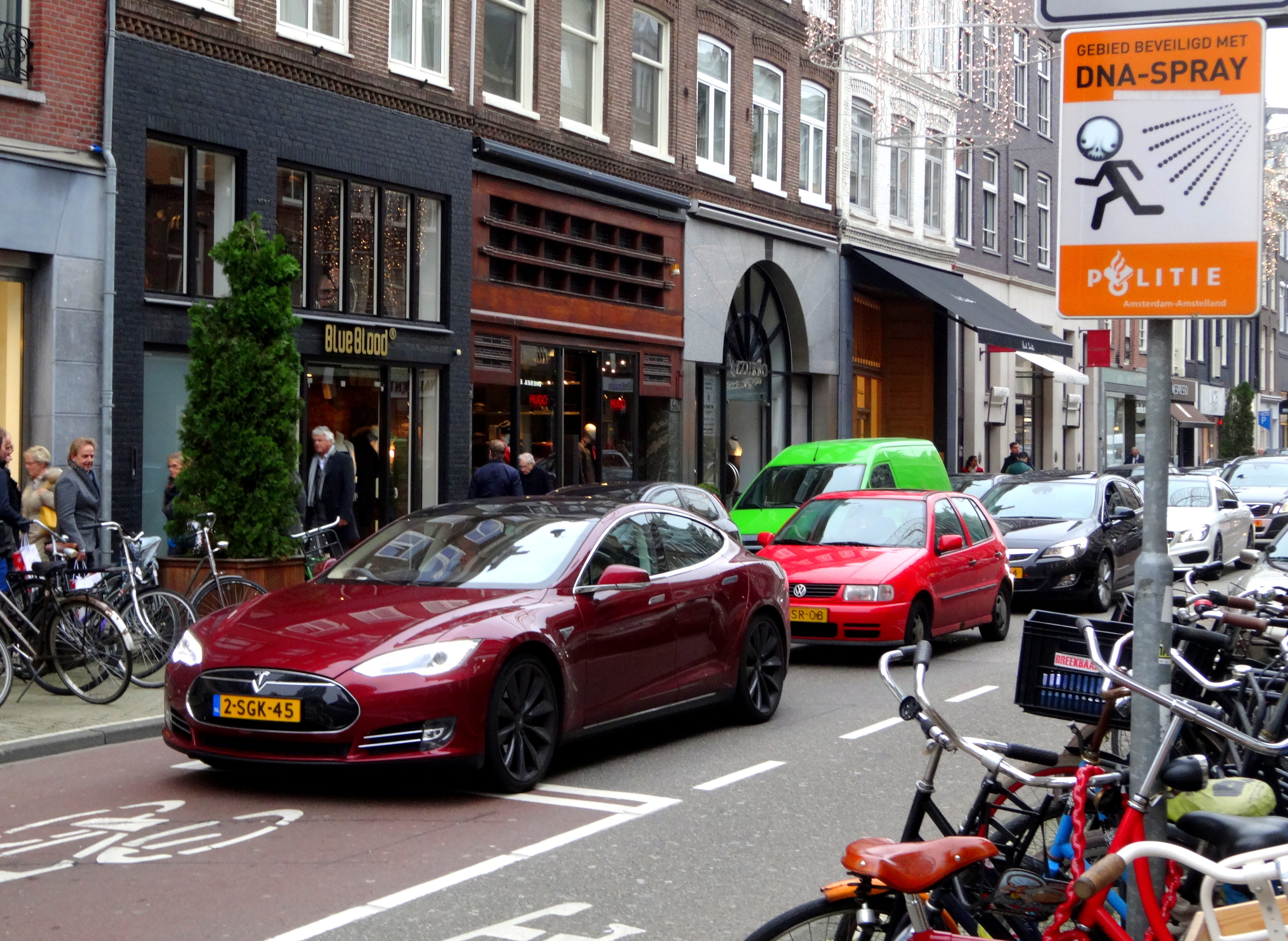 Tesla Model S in PC Hooftstraat Amsterdam, the NetherlandsSony Cyber-shot DSC-WX300